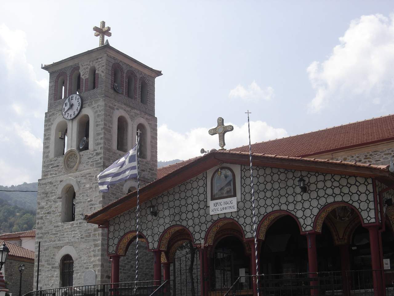 The main church of Agios Dimitrios in the namesake village.